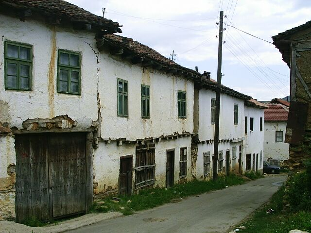 The village of Nežilovo Bogomila in Jakupica Mounatins - southern part of the republic of Macedonia